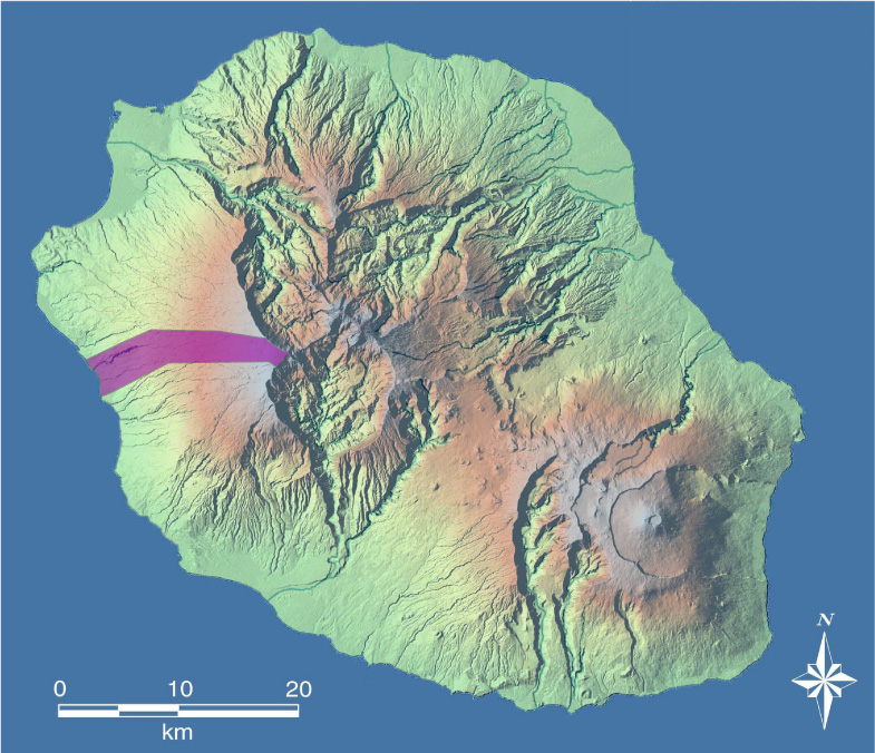 Map of Trois-Bassins, Réunion (France)